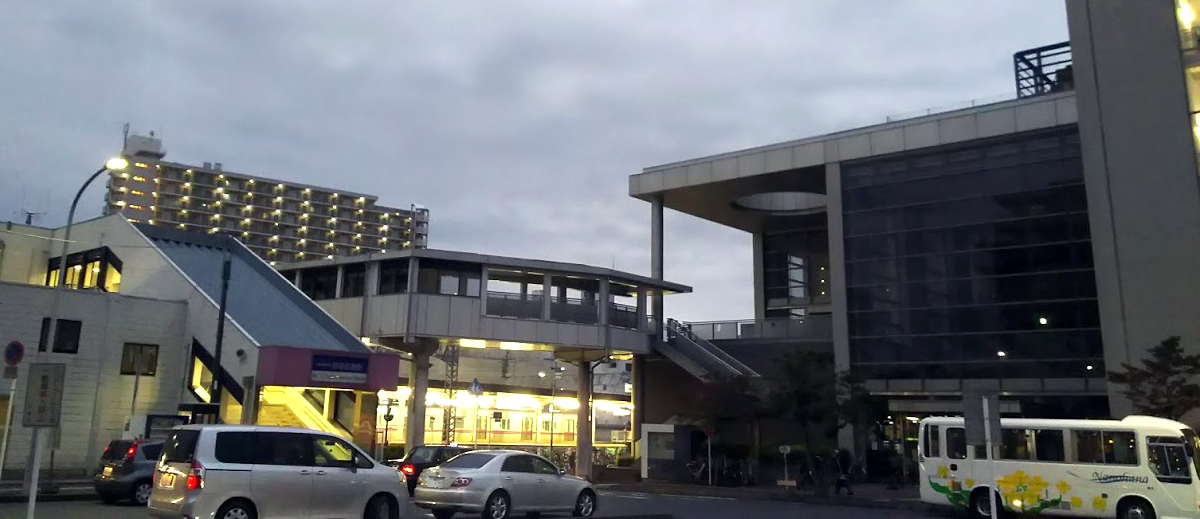 Keisei Sakura Sta. north side